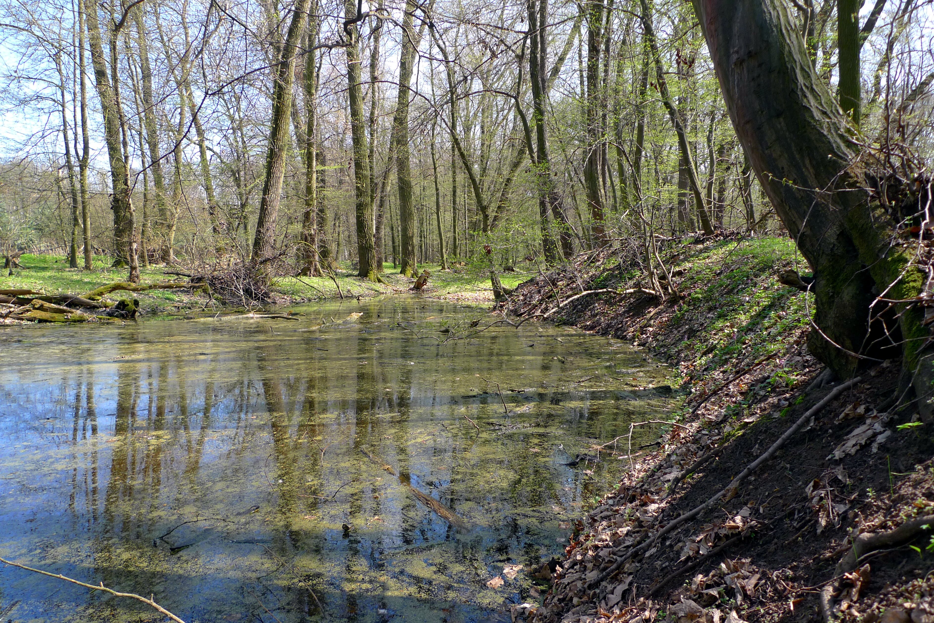 Hrbáčkovy tůně nature reserve and Budečská hráz in Central Bohemia, Czech Republic Česky: Přírodní rezervace Hrbáčkovy tůně a Budečská hráz ve Středočeském kraji.